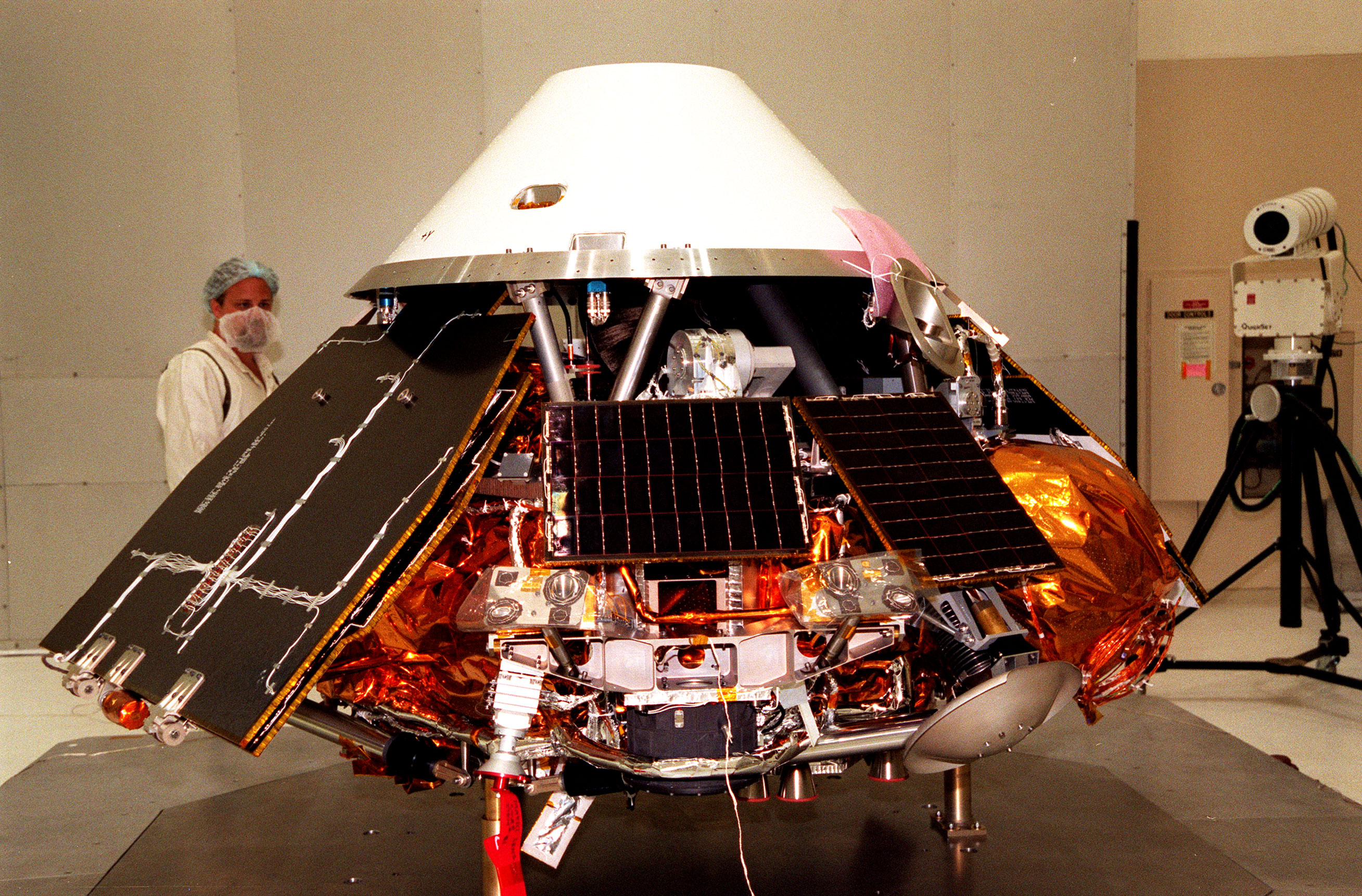 In the Spacecraft Assembly and Encapsulation Facility-2 (SAEF-2), a KSC technician looks over the Mars Polar Lander before its encapsulation inside the backshell, a protective cover. The solar-powered spacecraft, targeted for launch from Cape Canaveral Air Station aboard a Delta II rocket on Jan. 3, 1999, is designed to touch down on the Martian surface near the northern-most boundary of the south pole in order to study the water cycle there. The lander also will help scientists learn more about climate change and current resources on Mars, studying such things as frost, dust, water vapor and condensates in the Martian atmosphere.